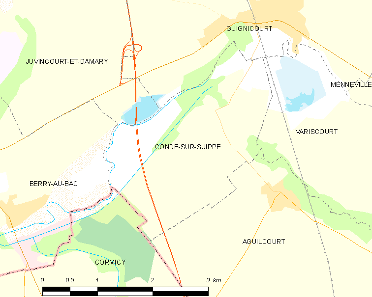 Map of French commune: Condé-sur-Suippe Map commune FR insee code 02211.png